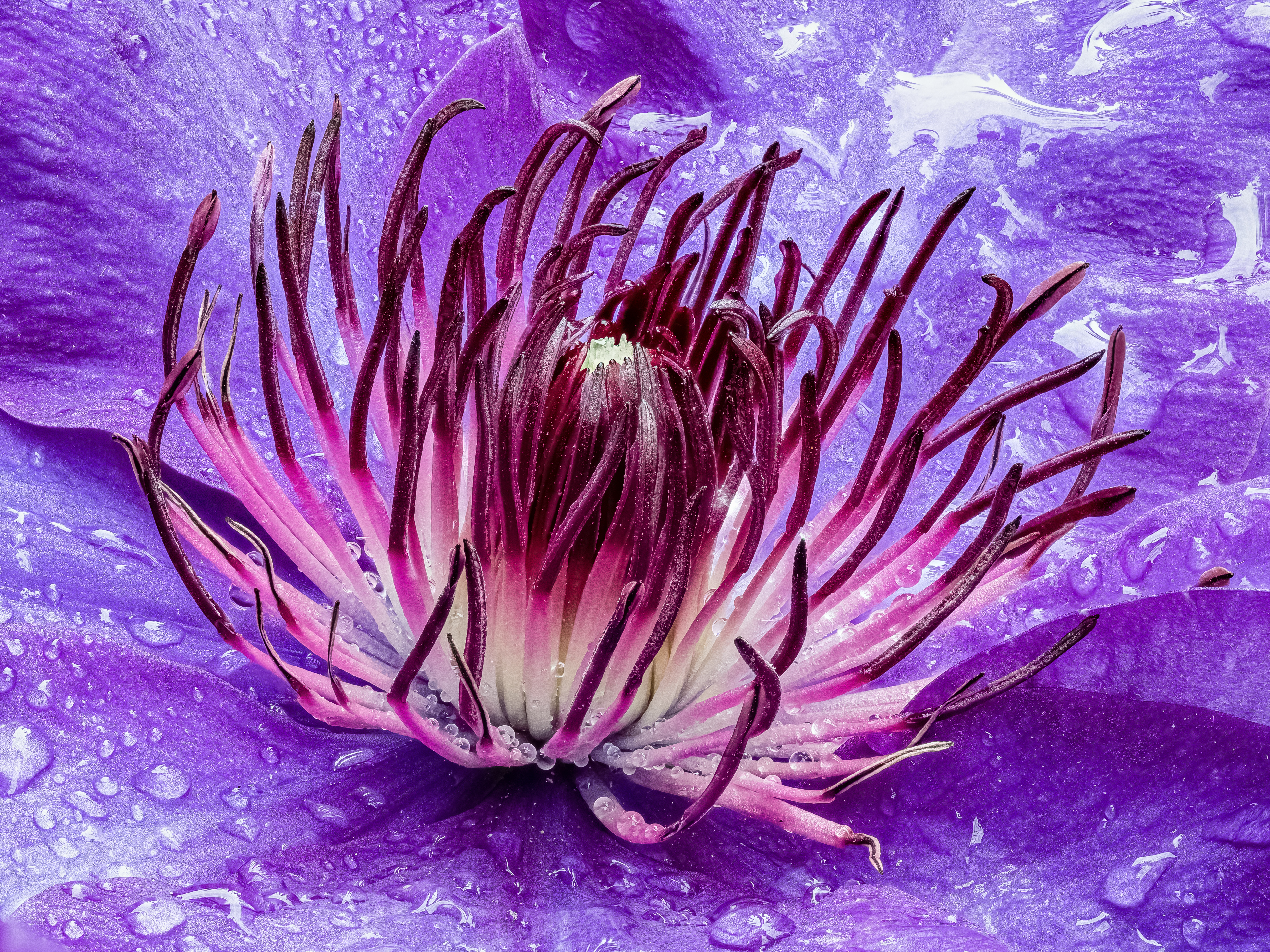 Interior of a clematis flower. Stack from 55 frames with Helicon Focus.